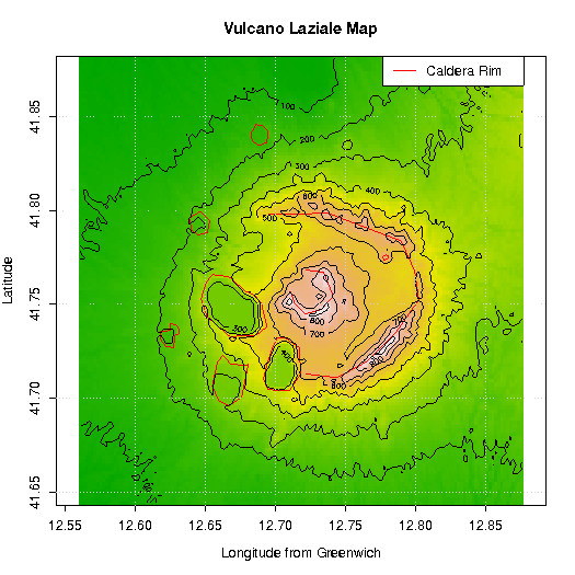 Map of the Alban Hills (near Rome, Italy), made using R. The red lines depict the borders between the inner and outer slopes of rims.